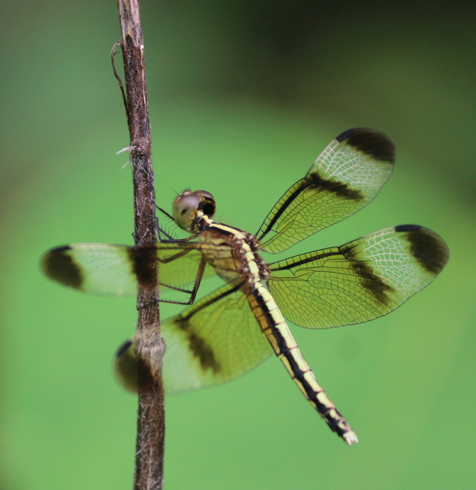 Pied paddy skimmer female